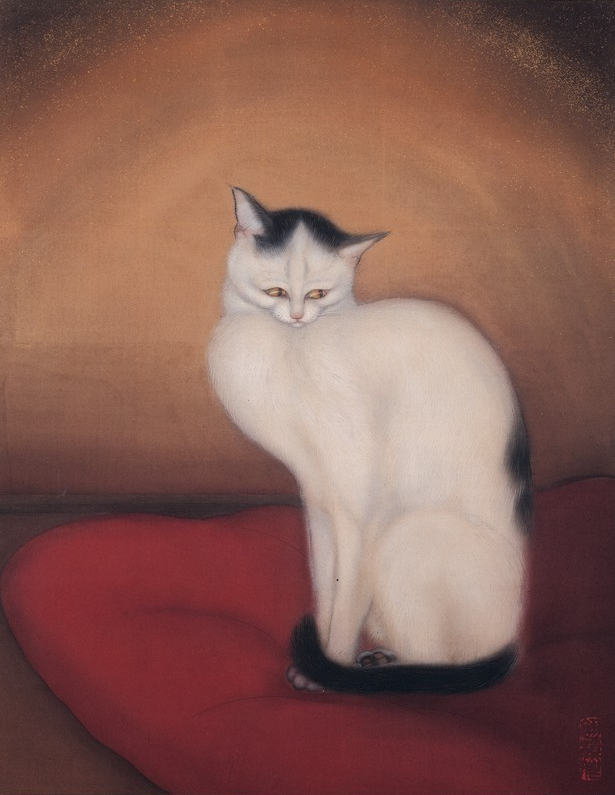 Painting of a cat